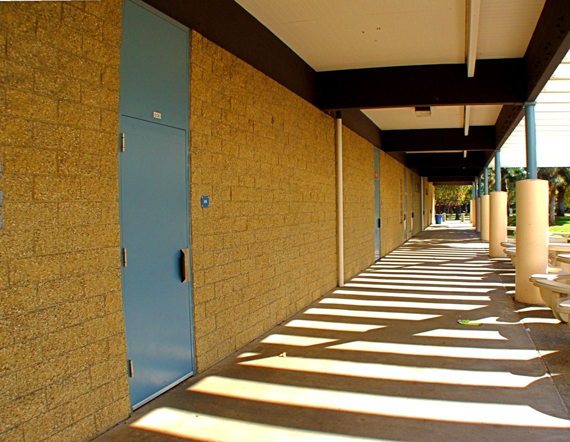 A picture of the 200-Building classrooms that exit outdoors at University High School in Irvine, California, USA.